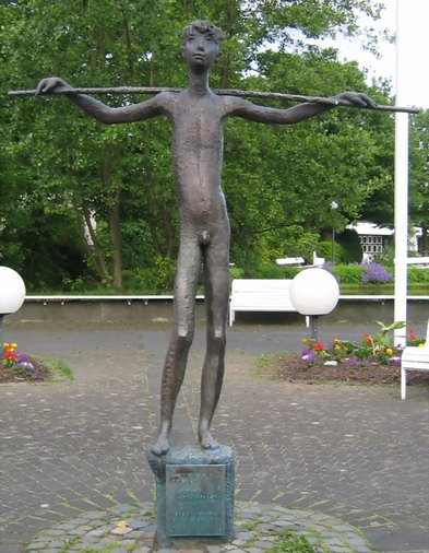 The sculpture Knabe mit Stecken named Helmut at the Weiherplatz in Nümbrecht.